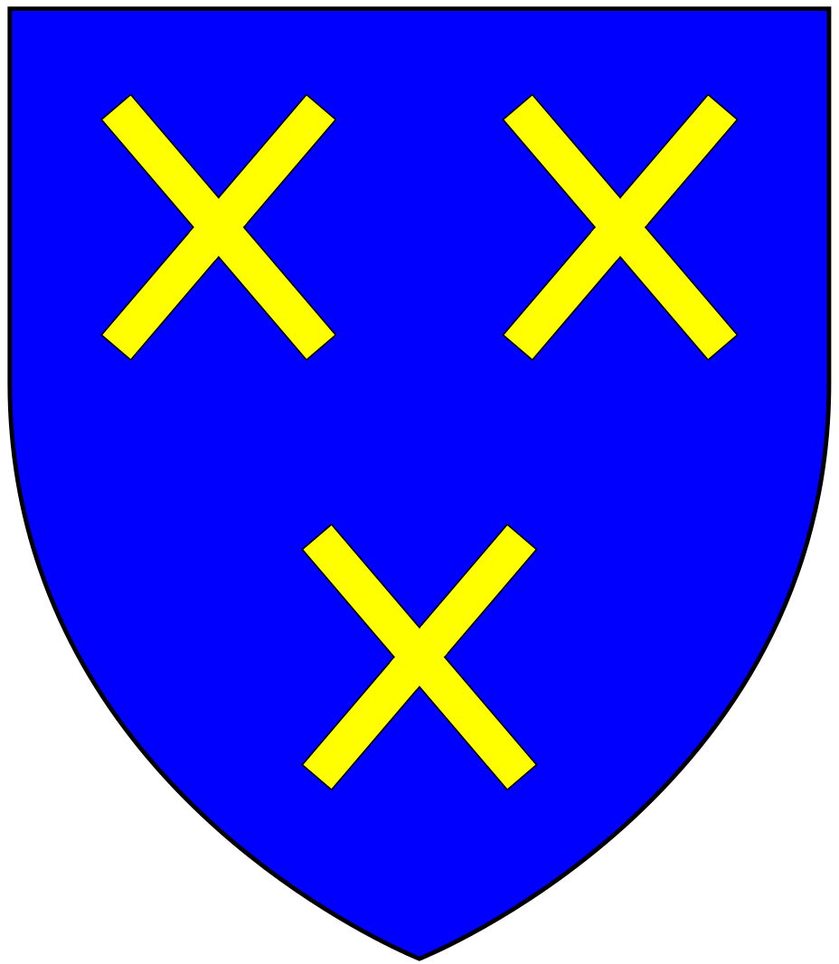 Arms of Glanville of Tavistock, Devon: Azure, three saltires or (Source: Vivian, Lt.Col. J.L., (Ed.) The Visitation of the County of Devon: Comprising the Heralds' Visitations of 1531, 1564 & 1620, Exeter, 1895, p.410)